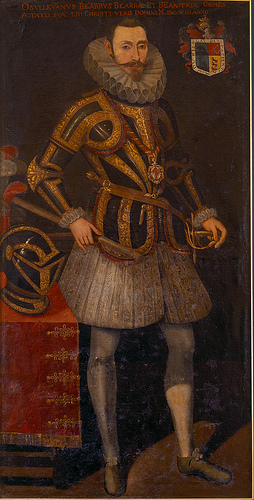 Portrait of Donal O'Sullivan Beare, 1613, aged 53, with the legend: 'O'Sullevanus Bearrus Bearrae et Beantriae Comes Aetatis suae LIIT Christi Vero Domini MDCXIIT anno'. Oil painting, l90cm x 98 cm. Maynooth College.